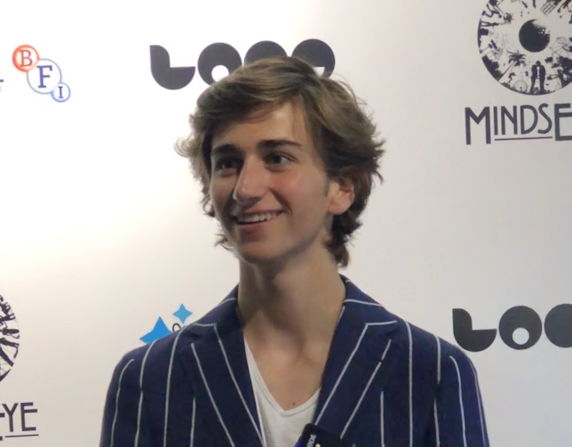 Sebastian Croft at the BFI LOCO London Comedy Film Festival in July 2019